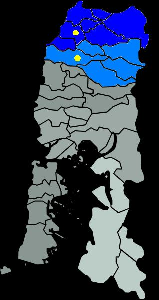 I Made it. Image based on Image:Comuna_Corral.png